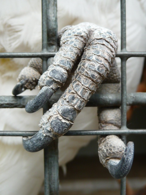 A White Cockatoo's right foot showing scaly skin and a zygodactyl foot—the middle two toes forward and the outer two toes backward